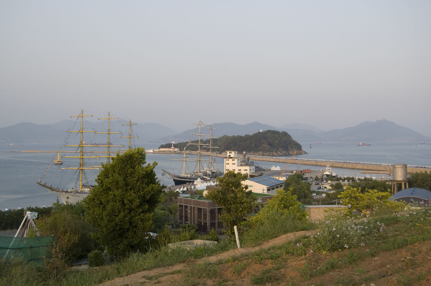 Odongdo in Yeosu